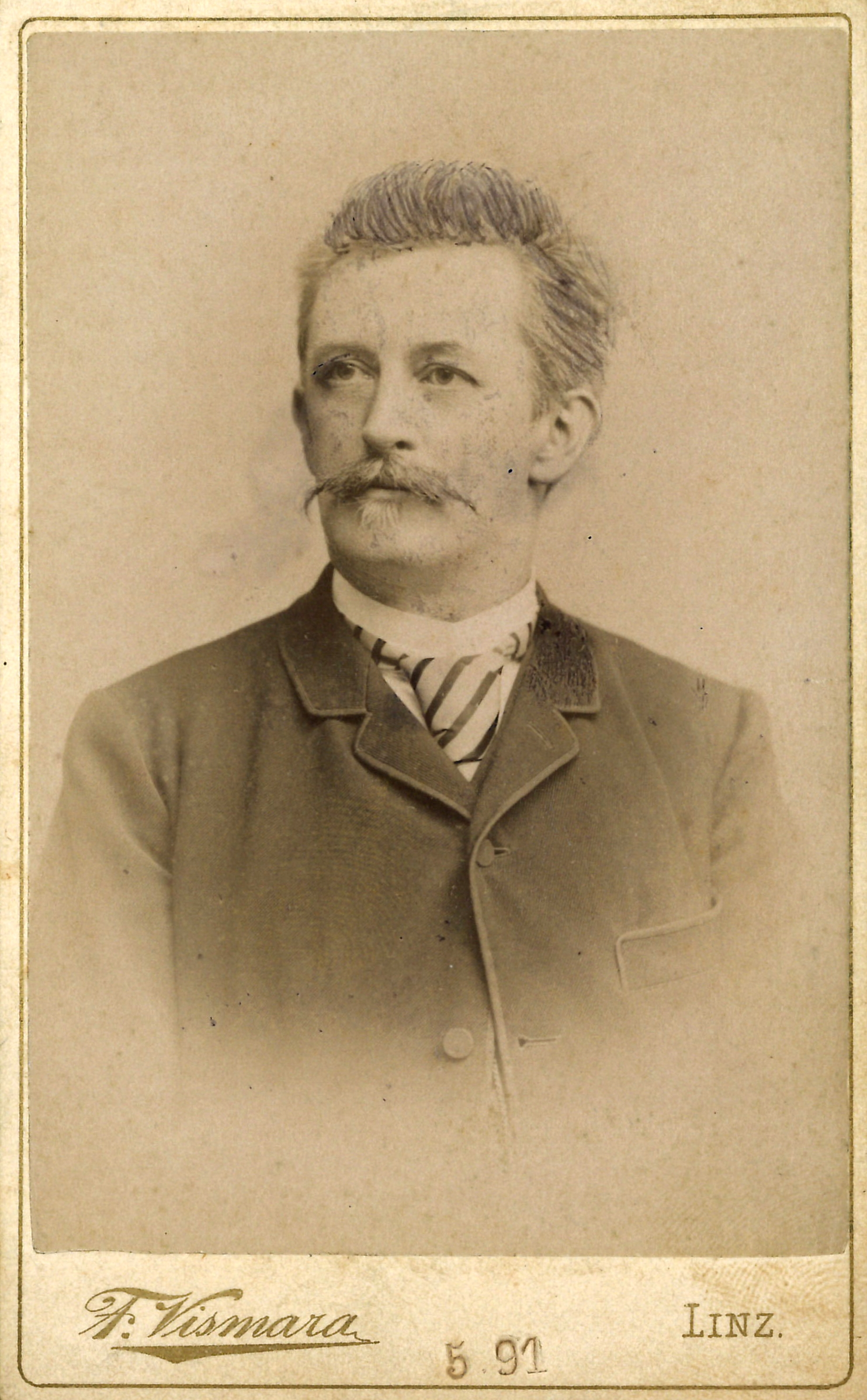 Ferdinand Krackowizer (1844-1933), director of Landesarchiv in Linz, Austria.